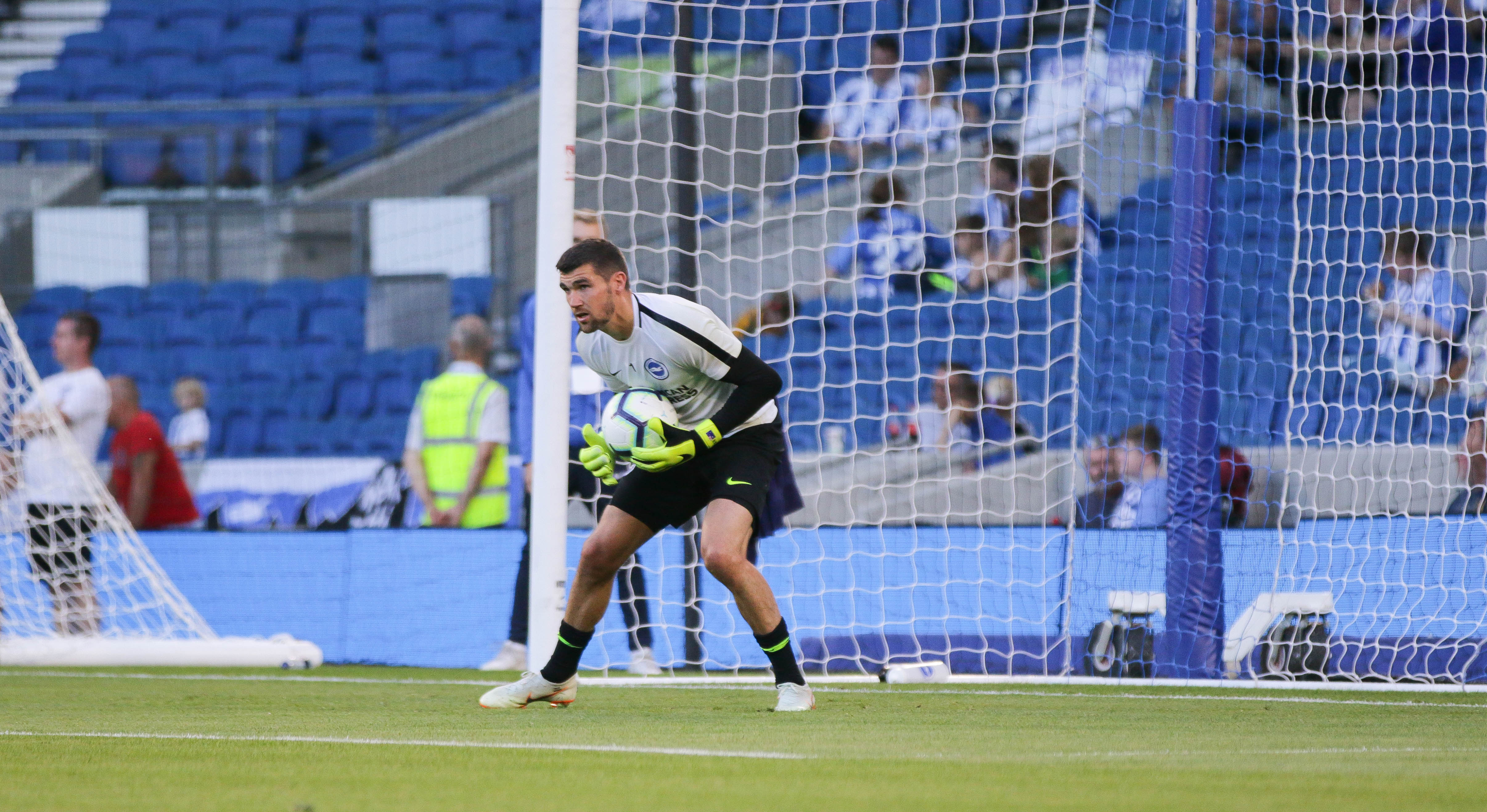 BHA v FC Nantes pre season 03 08 2018-81.jpg